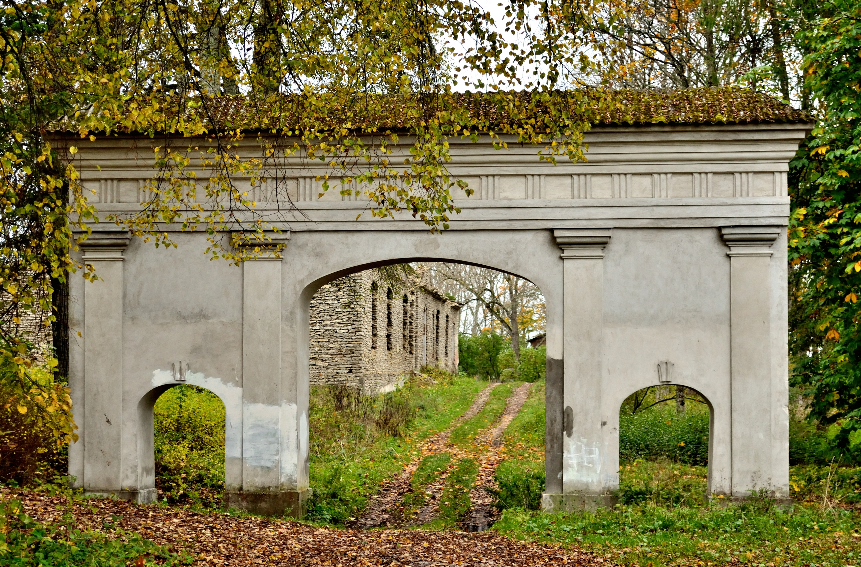 Nurme manor gate, from 18. century